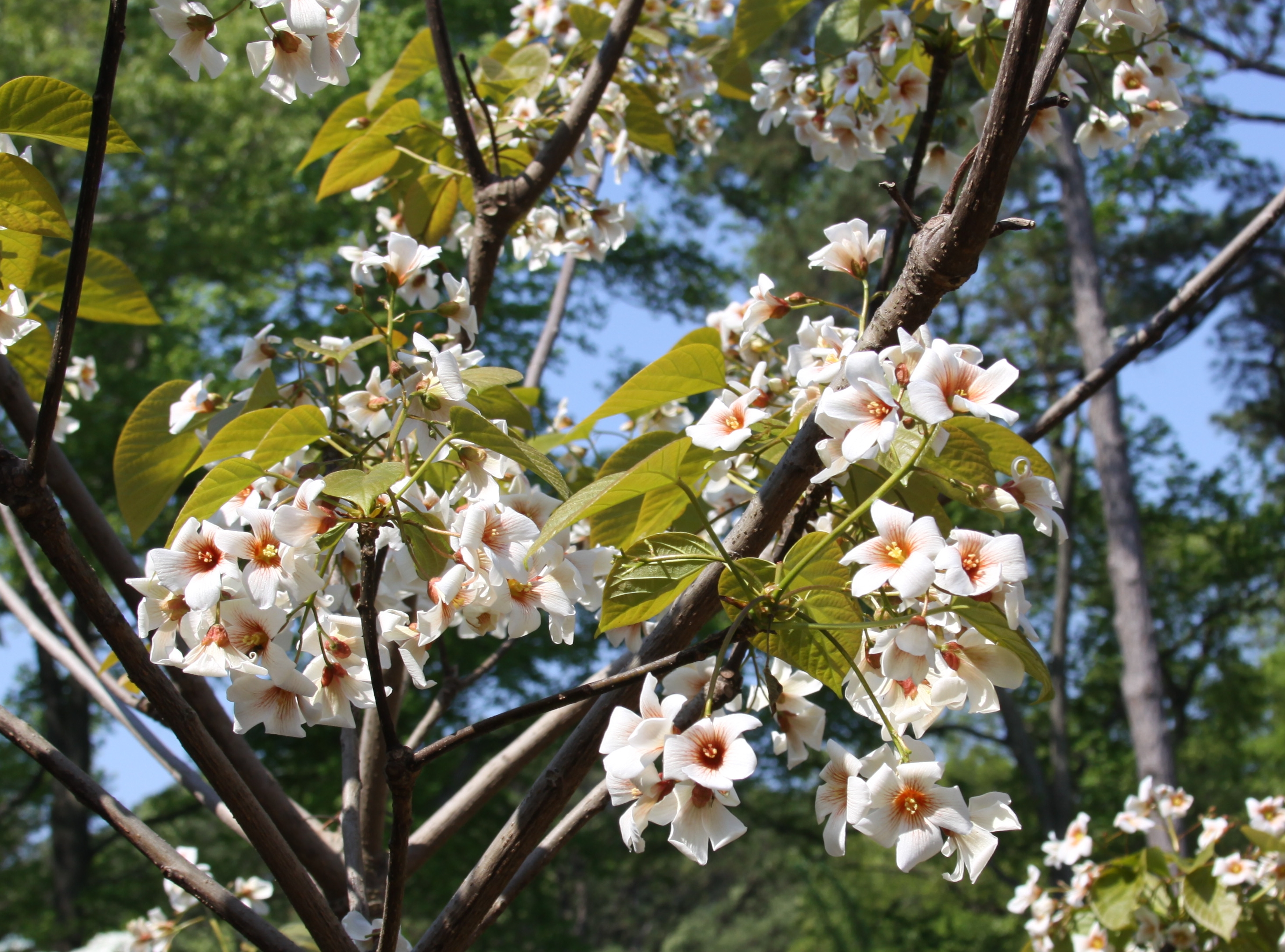 Tung Oil Tree (Vernicia fordii), Norfolk Botanical Garden